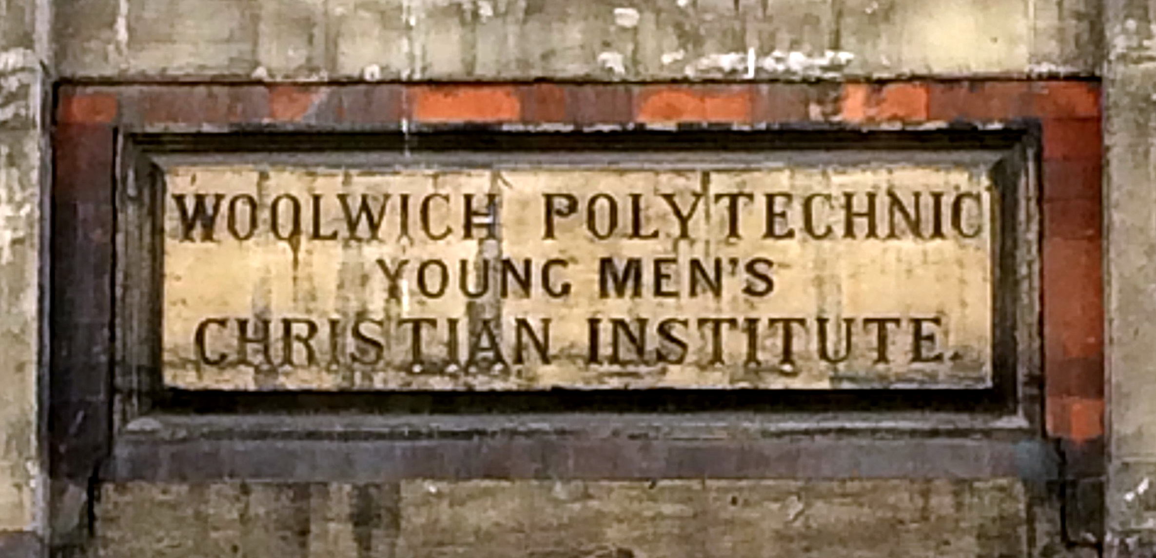 Detail of the oldest Polytechnic Building of 1891 on Calderwood Street in the Bathway Quarter, Woolwich, SE London, UK.